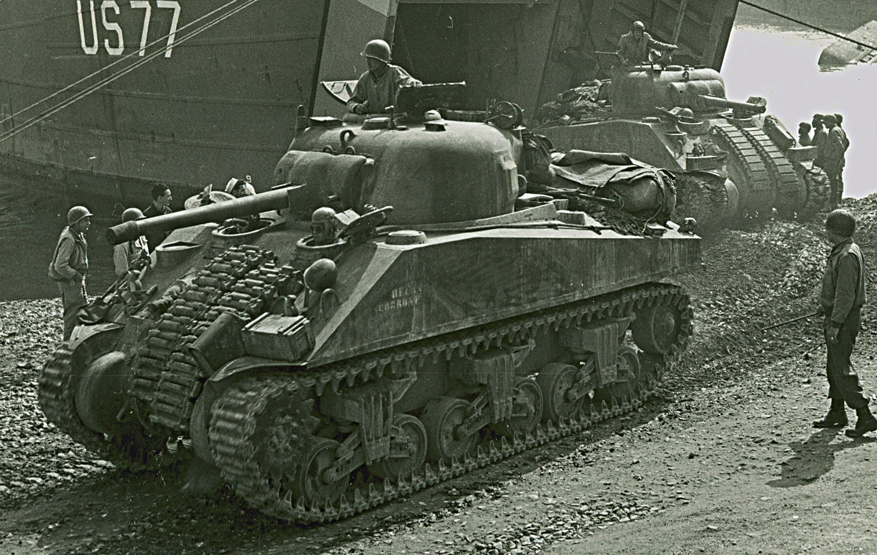 Tanks of an Armored regiment are debarking from an LST [US 77] in Anzio harbor [Italy] and added strength to the U.S. Fifth Army [VI Corps] forces on the beachead (WWII Signal Corps Photograph Collection).